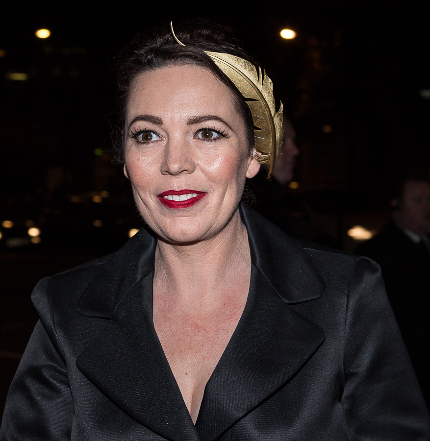 Olivia Colman